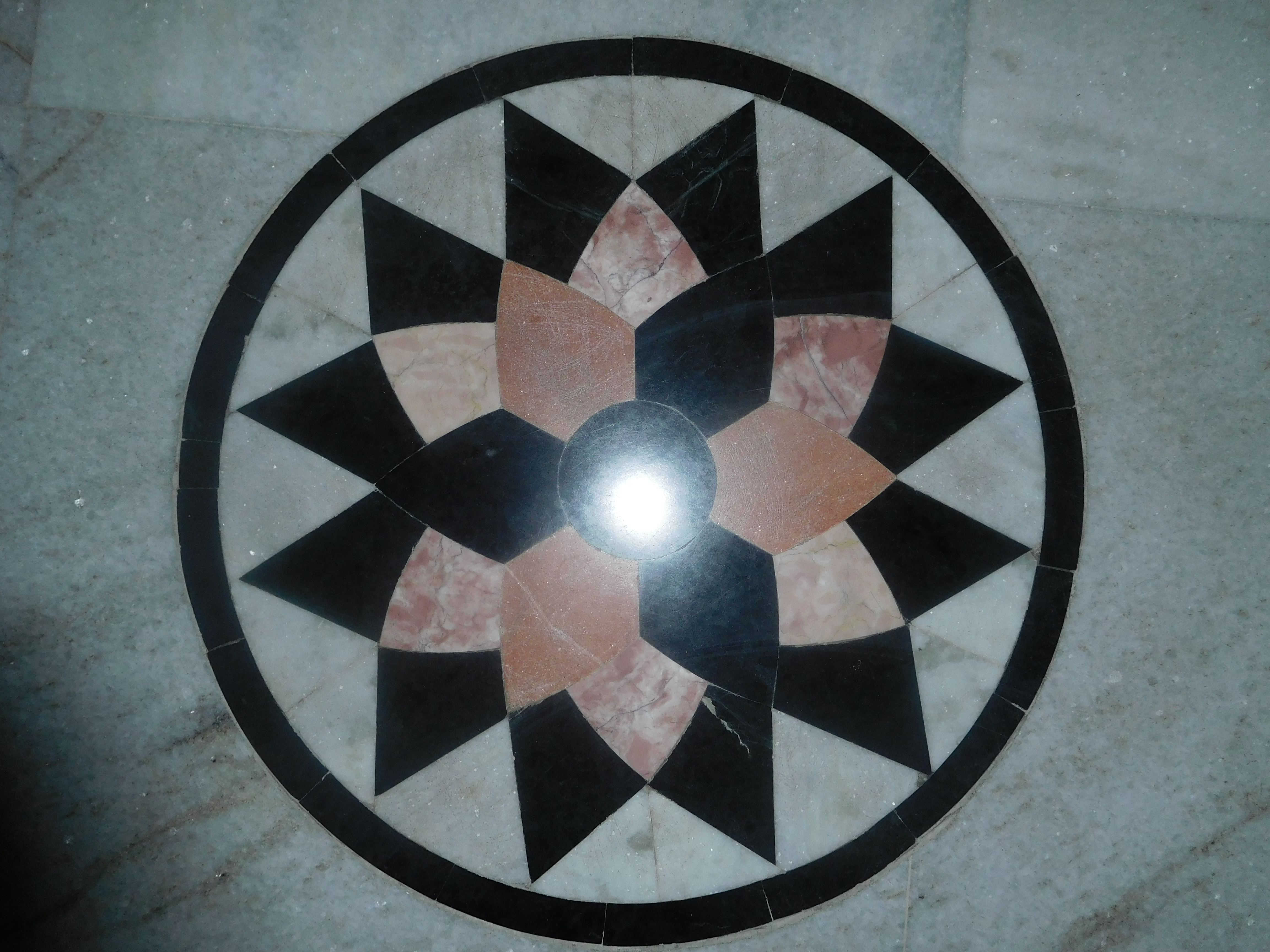 Hendecagram (XII angular star)